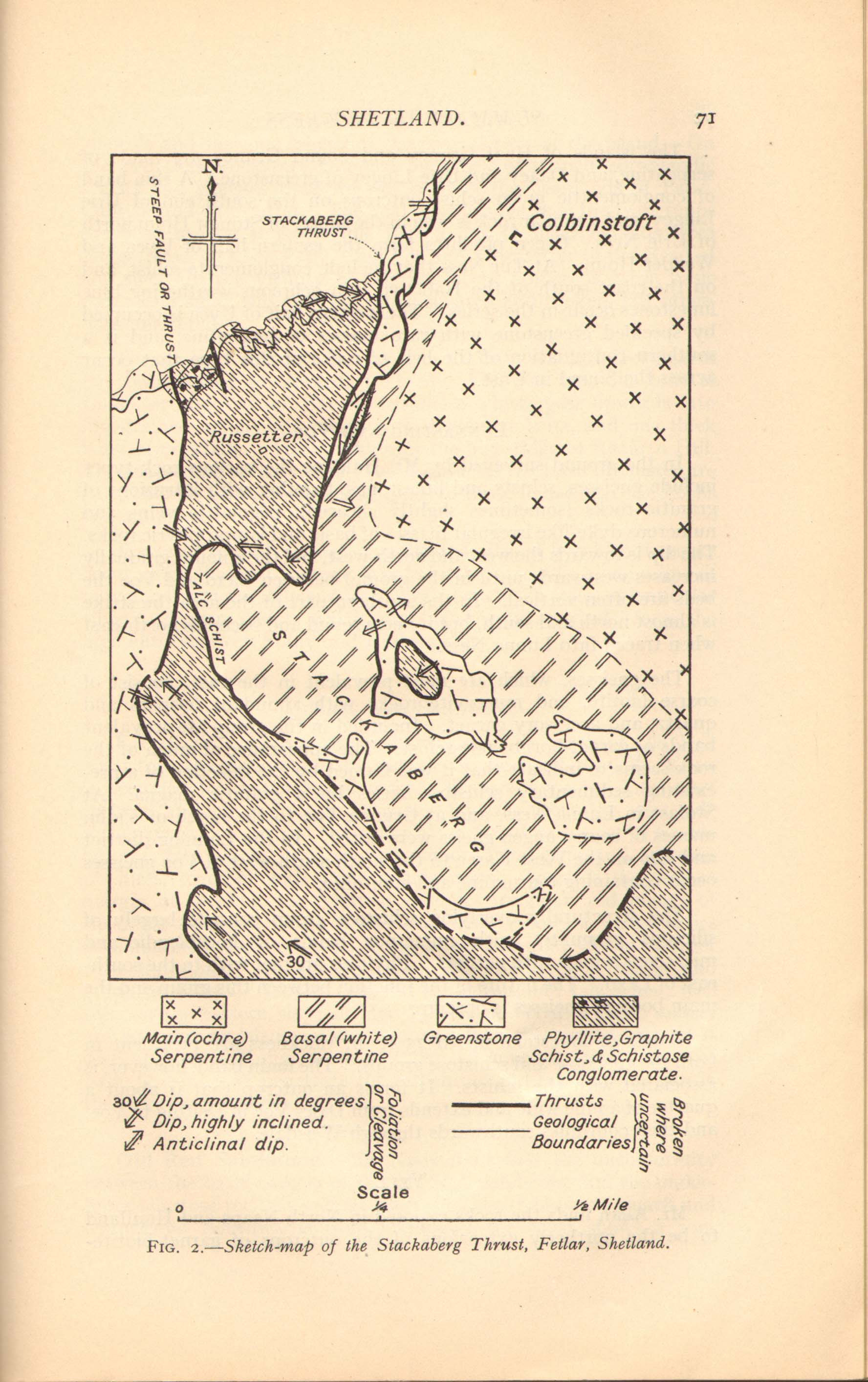 Sketch map of the Stackaberg Thrust, Fetlar, Shetland